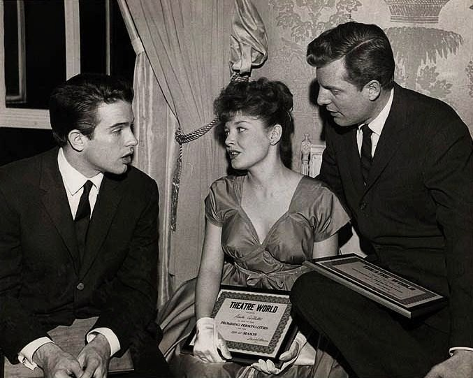 L. to R. : Warren Beatty, Anita Gillette & John McMartin with their Theatre World Awards - publicity still (cropped)